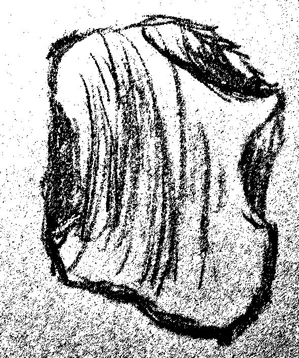 stone of yuanmou man 中文（中国大陆）: 元谋人石器